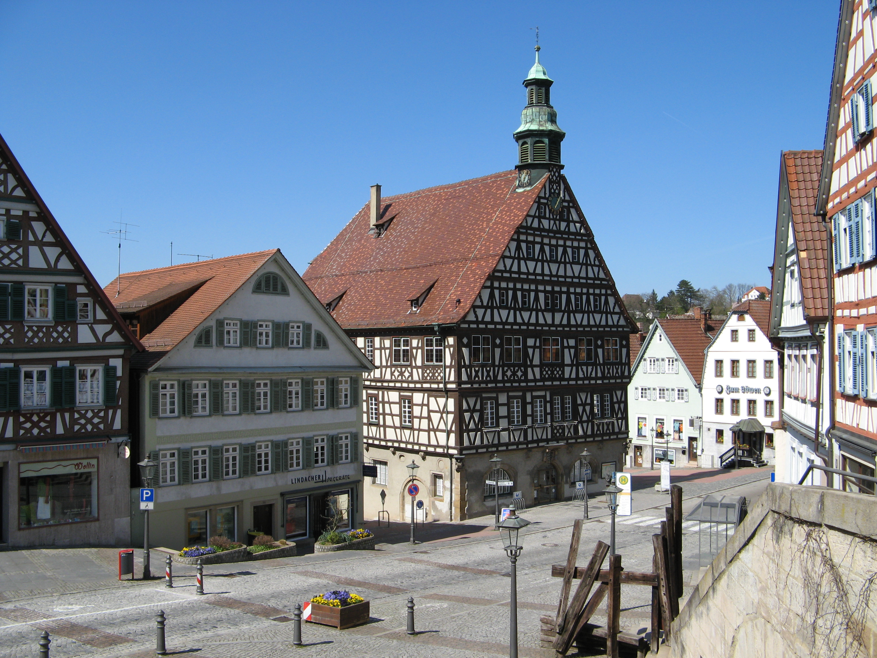 city hall, Backnang, Germany